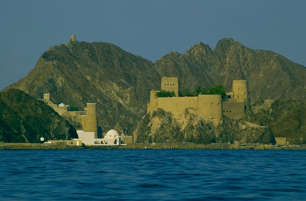 Al-Jalali and Al-Mirani forts in Mascat, Oman.